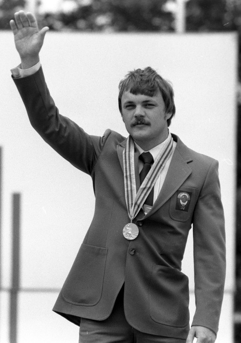 “Alexander Melentyev”. Alexander Melentyev, champion and record holder in gun shooting. The 22nd Summer Olympic Games (July 19 - August 3, 1980).